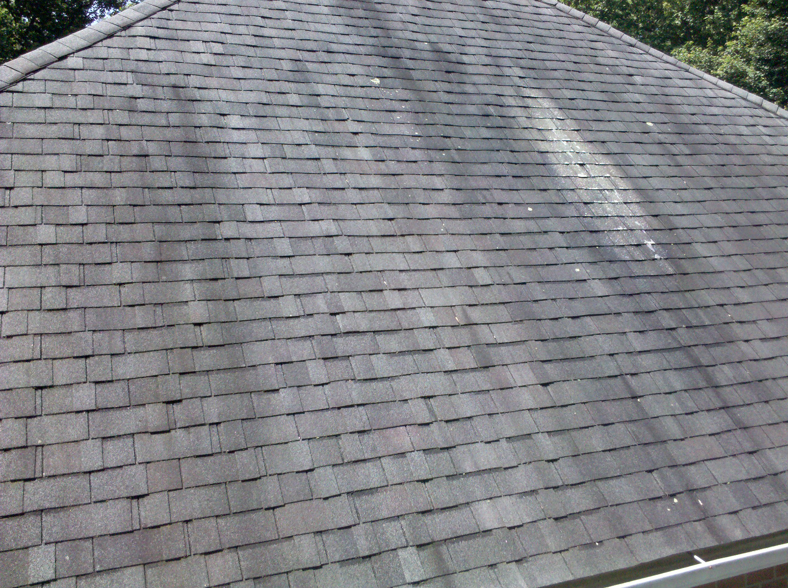 Example of the bacteria Gloeocapsa magma growing on asphalt shingles. When the sunlight tries to kill the organism, it encapsulates itself with a hard black shell, resulting in these black streaks. The organism is slowly eating away at the shingle granules.